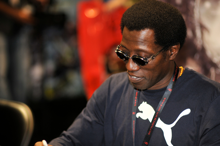 Wesley Snipes signing autographs at ComicCon 2010